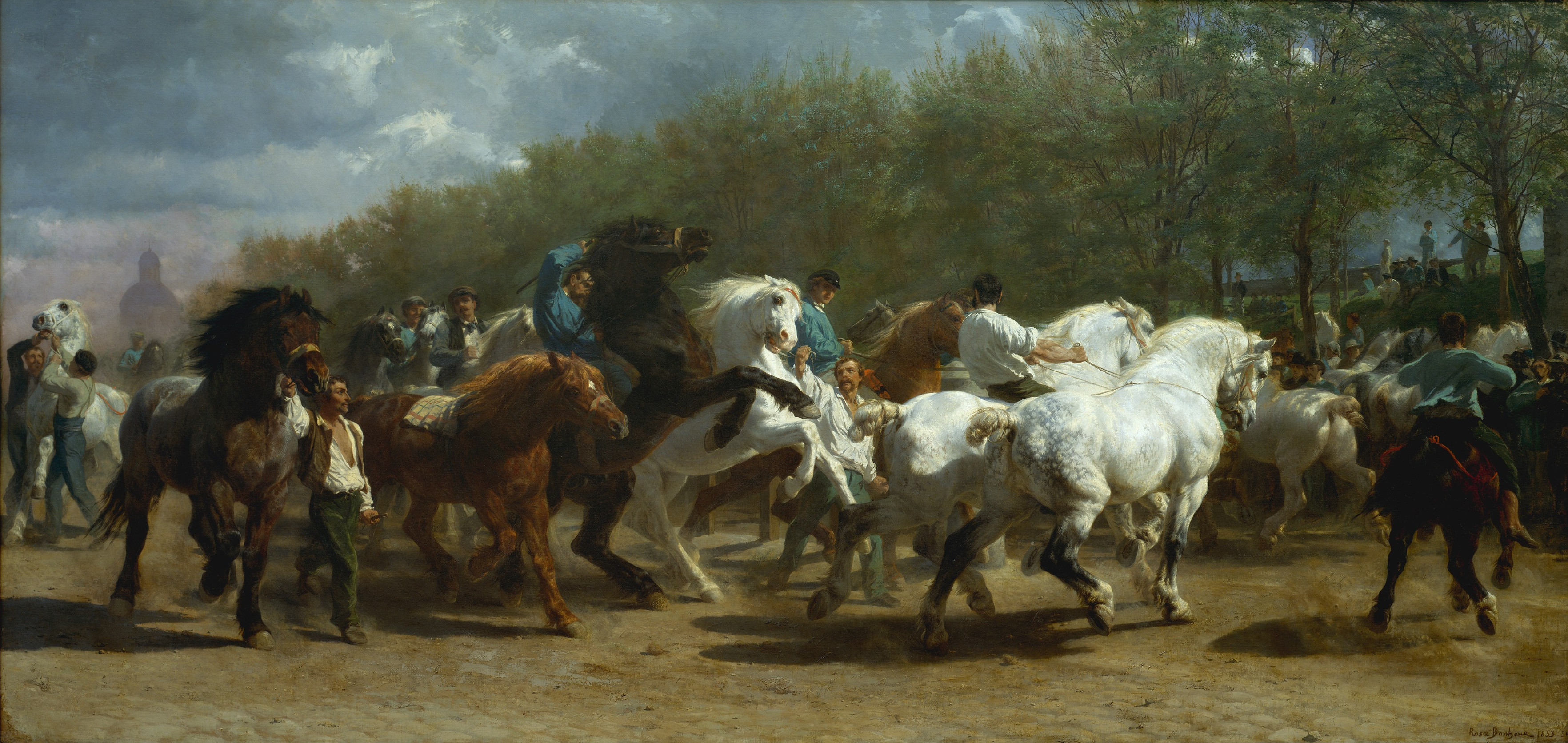 The scene is the horse market in Paris, and the dome of La Salpêtrière is visible in the background.